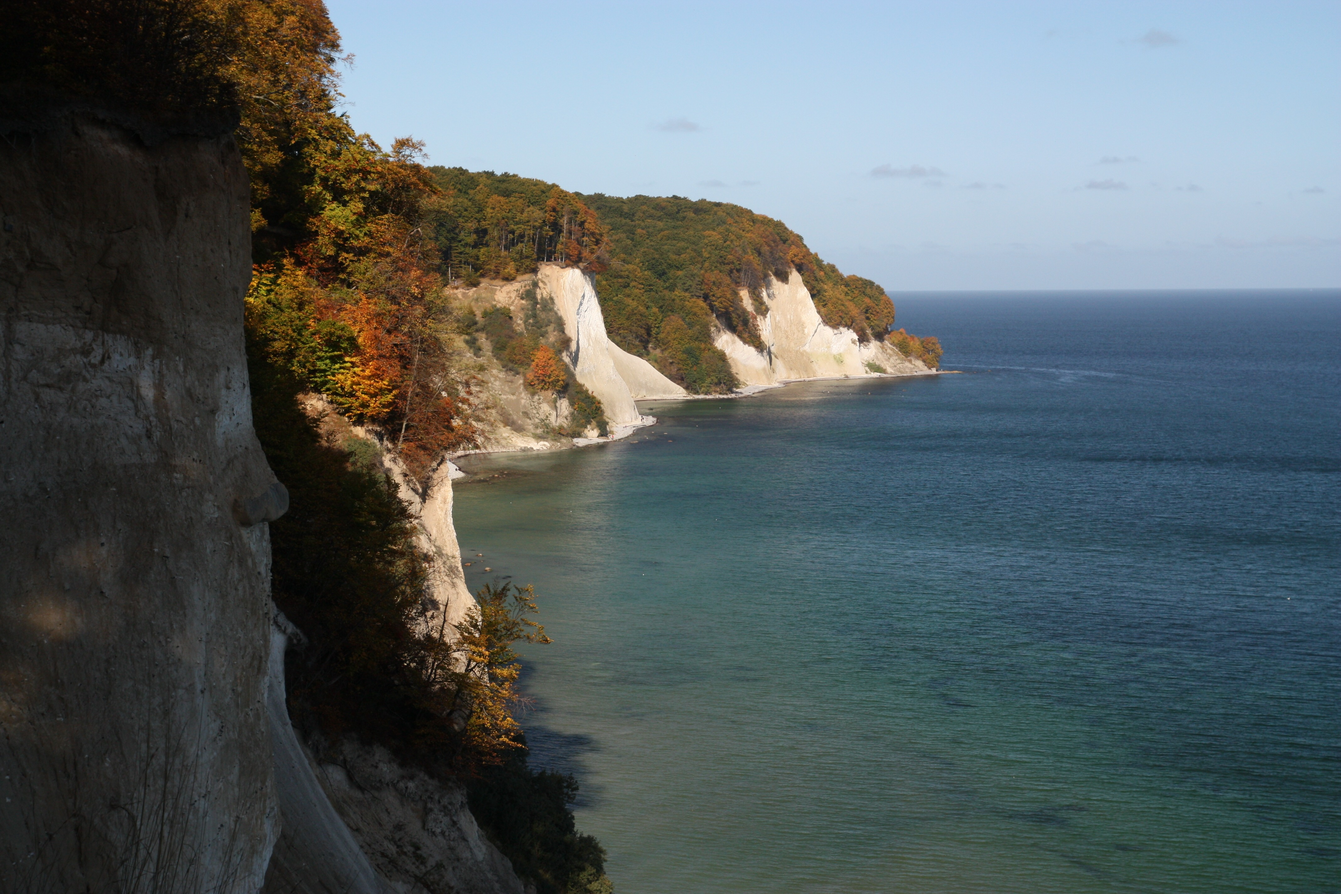 White Cliffs on the island of Rügen, Germany. (Jasmund National Park)